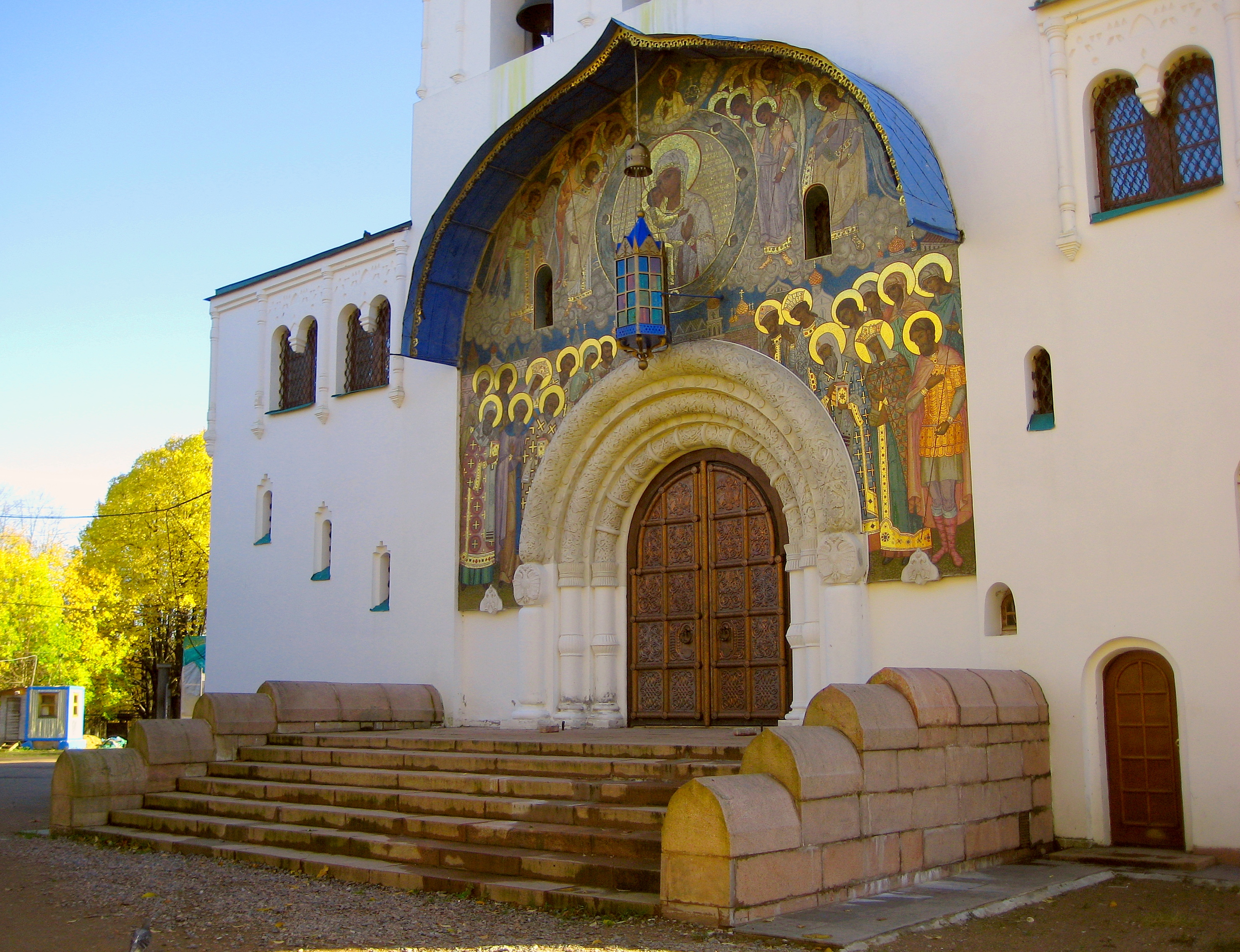 Feodorovsky Cathedral: Akademichesky Avenue, 34. Pushkin, Pushkin District, St. Petersburg.